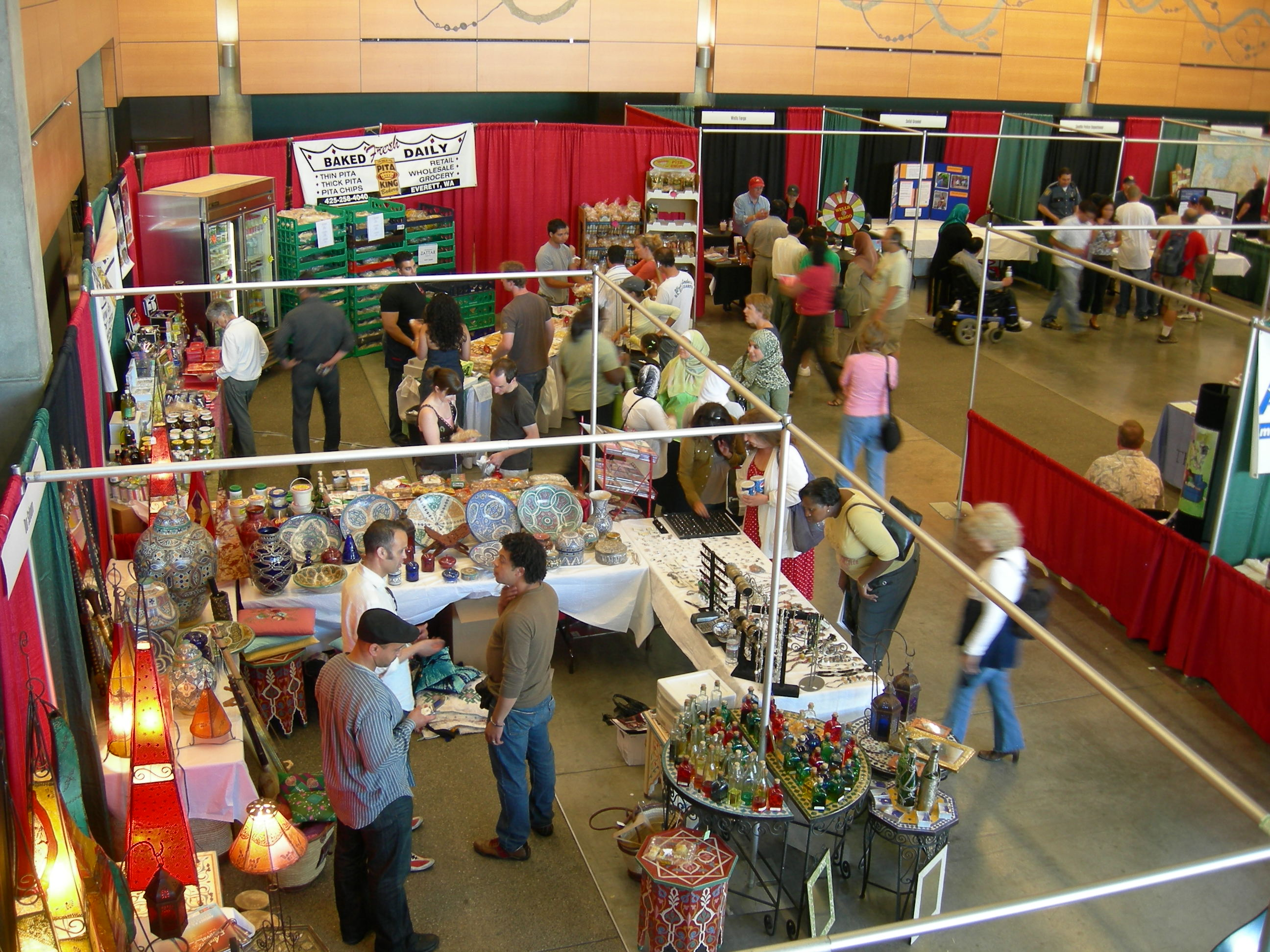 Arab Festival bazaar, Fisher Pavilion, Seattle Center, Seattle, Washington.